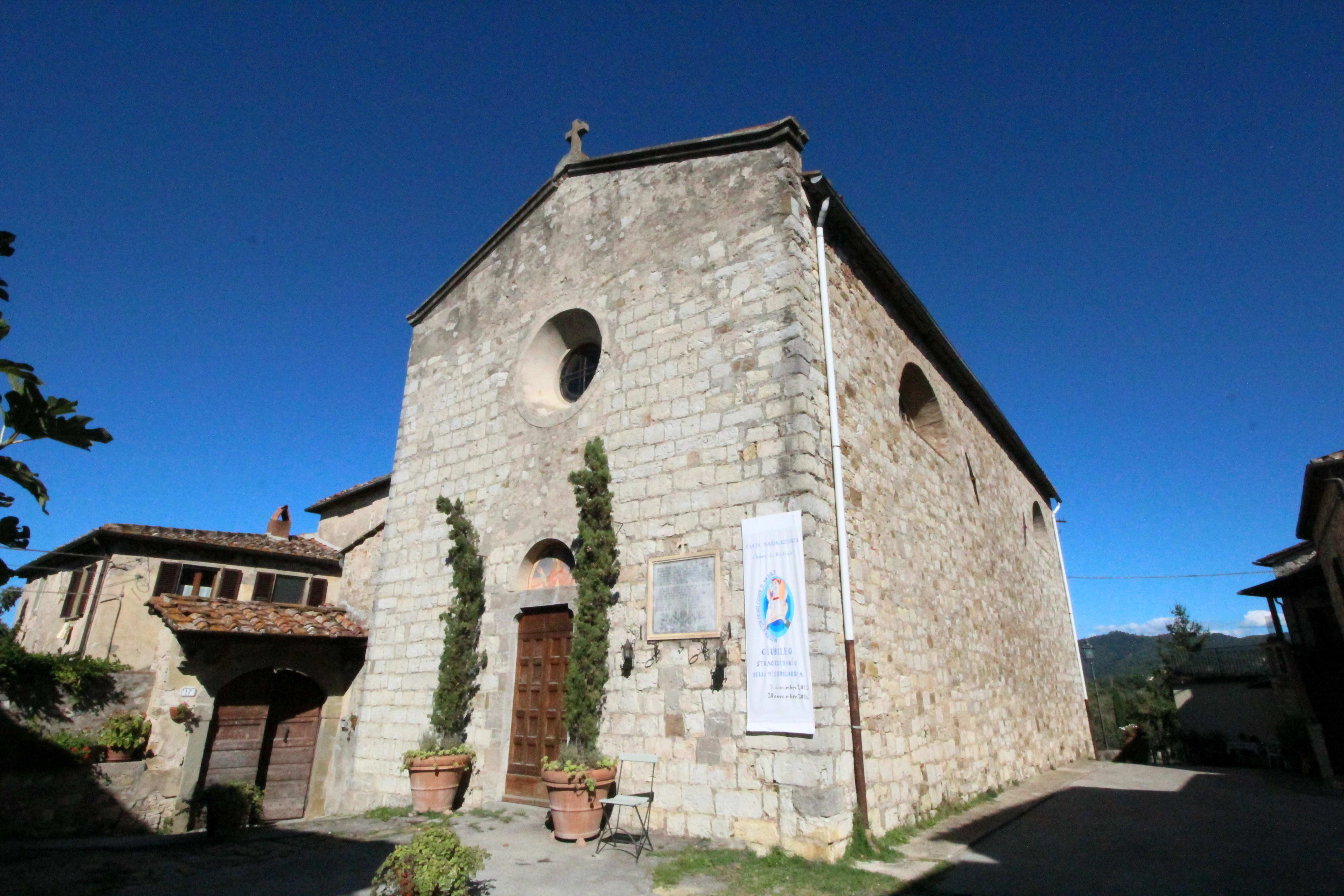 Church Santa Maria, Rietine, hamlet of Gaiole in Chianti, Province of Siena, Tuscany, Italy